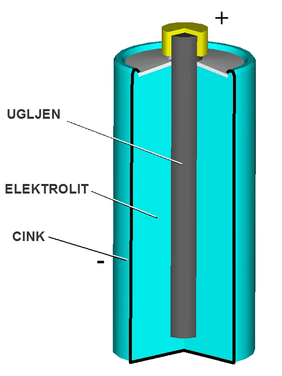 Leclanshe - baterie